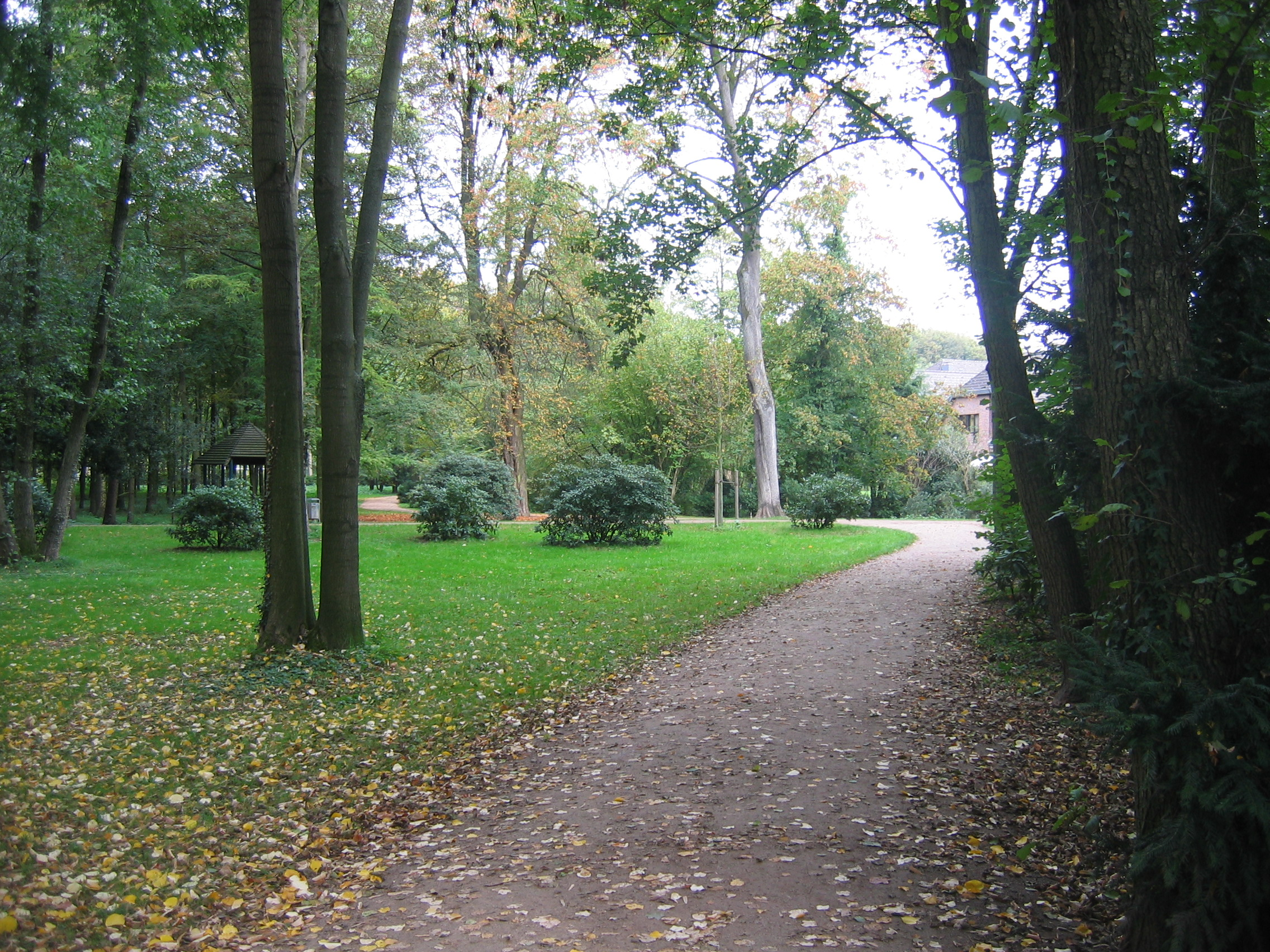 View of the Poensgen-Park in Ratingen